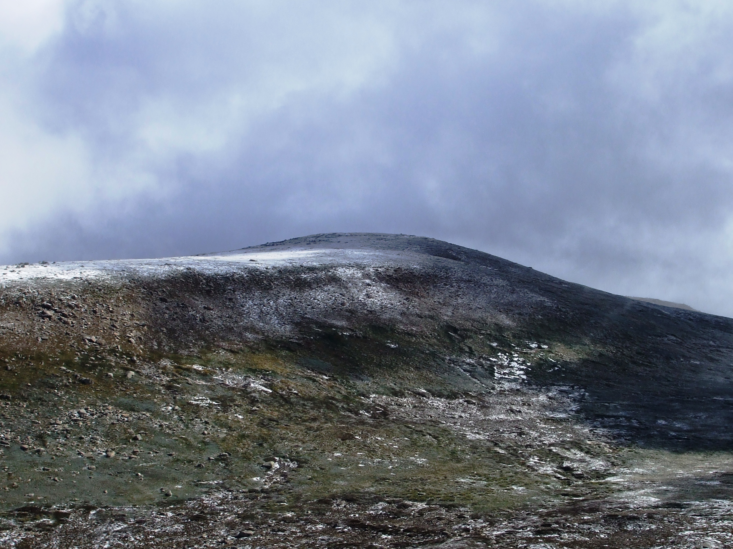 Mount Kosciuszko, Australia. Taken from the Australian Alps Walking Track.